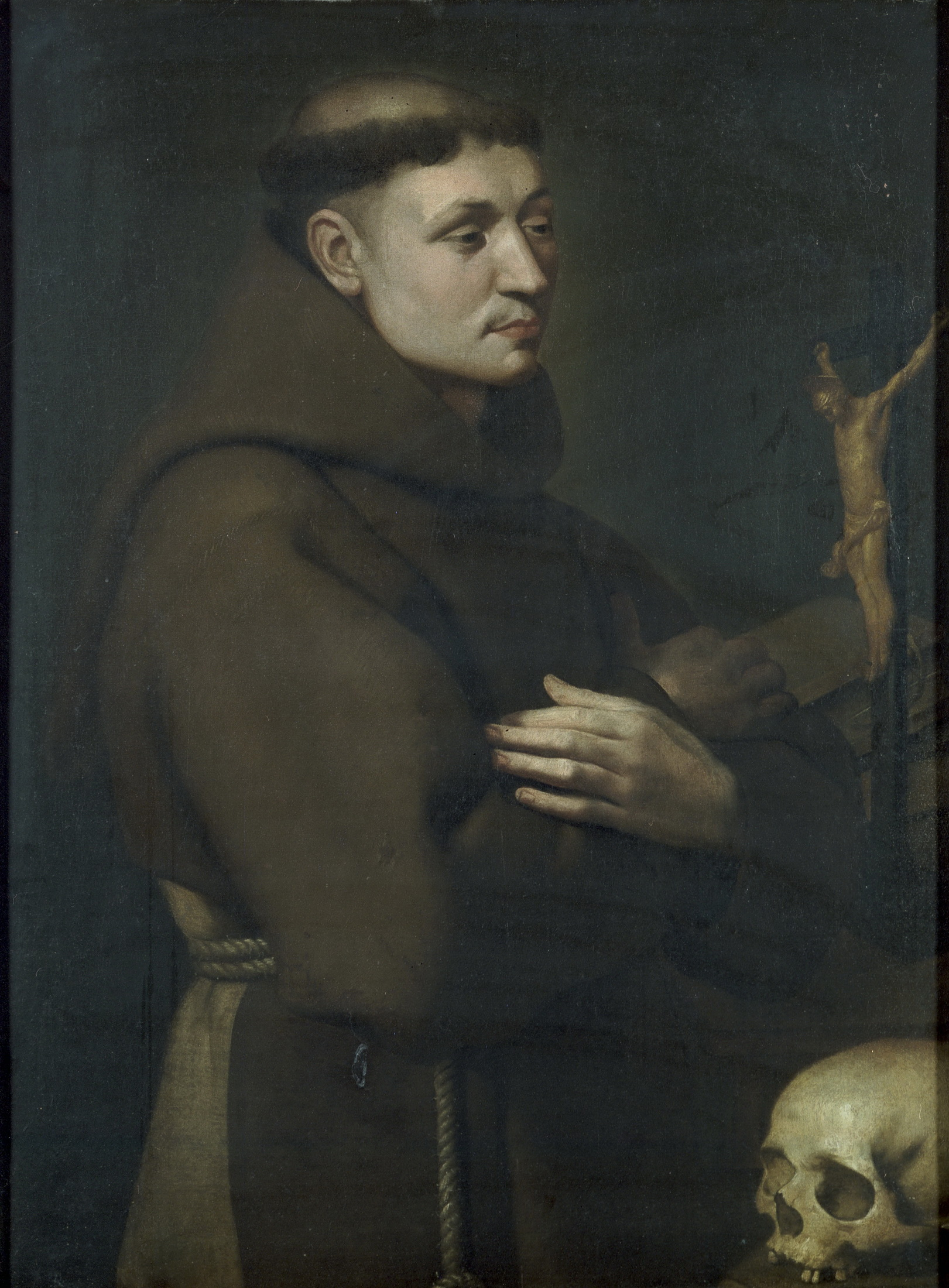 Bertholet Flemalle or Jean-Guillaume Carlier, Portrait of a Carmelite, formerly in the Musée de l'Art wallon, now in the Musée des beaux-arts, Liège, Belgium